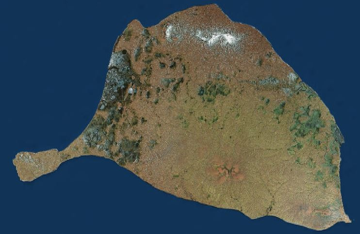 Bolshoi Lyakhovsky - Landsat